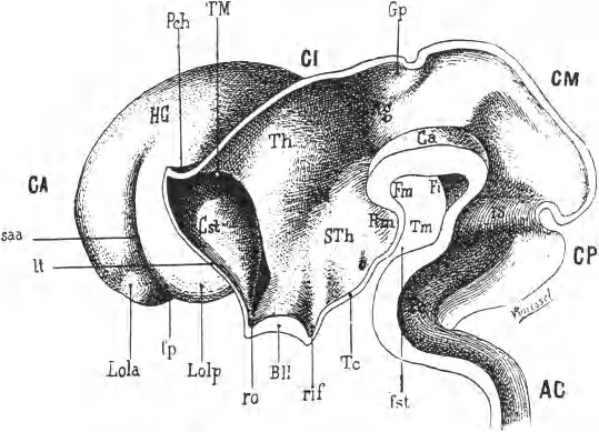 Medial view of the developing brain of an human embryo aged approximately 5 weeks post conception (16.6 mm long, Carnegie stage 15). Several different structures are already clearly visible, including the thalamus. From Dejerine, 1901, reproducing an earlier drawing of Wilhelm His, 1893.